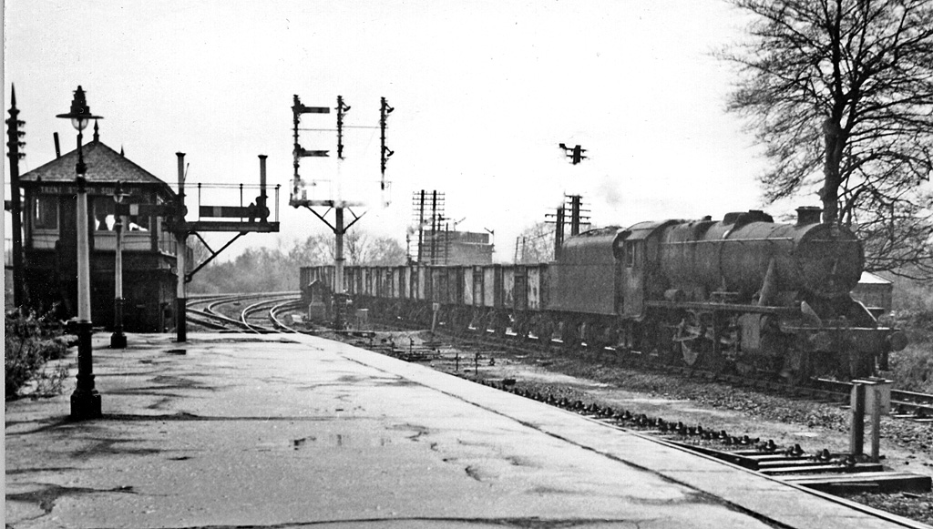 A Down empties from the Derby/Burton direction passes Trent Station South Box. View SW from the south end of Trent Station; ex-Midland major junction of the London - Leicester - Sheffield and Derby etc. - Nottingham main trunk lines. The Junction remains a focal point of trunk lines, but Trent Station itself served little purpose for passengers except to change trains and was closed on 1/1/68. The Class F empties is no doubt bound for Toton Yard a mile or two to the north and probably came off the line from Burton-on-Trent via Castle Donington: it is headed by Stanier 8F 2-8-0 No. 48559